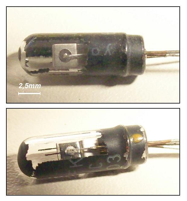 Early construction of a bipolar transistor (OC603 from Telefunken). The color dot is the collector terminal, the germanium chip is mounted via a hole in a metal sheet which is the base terminal